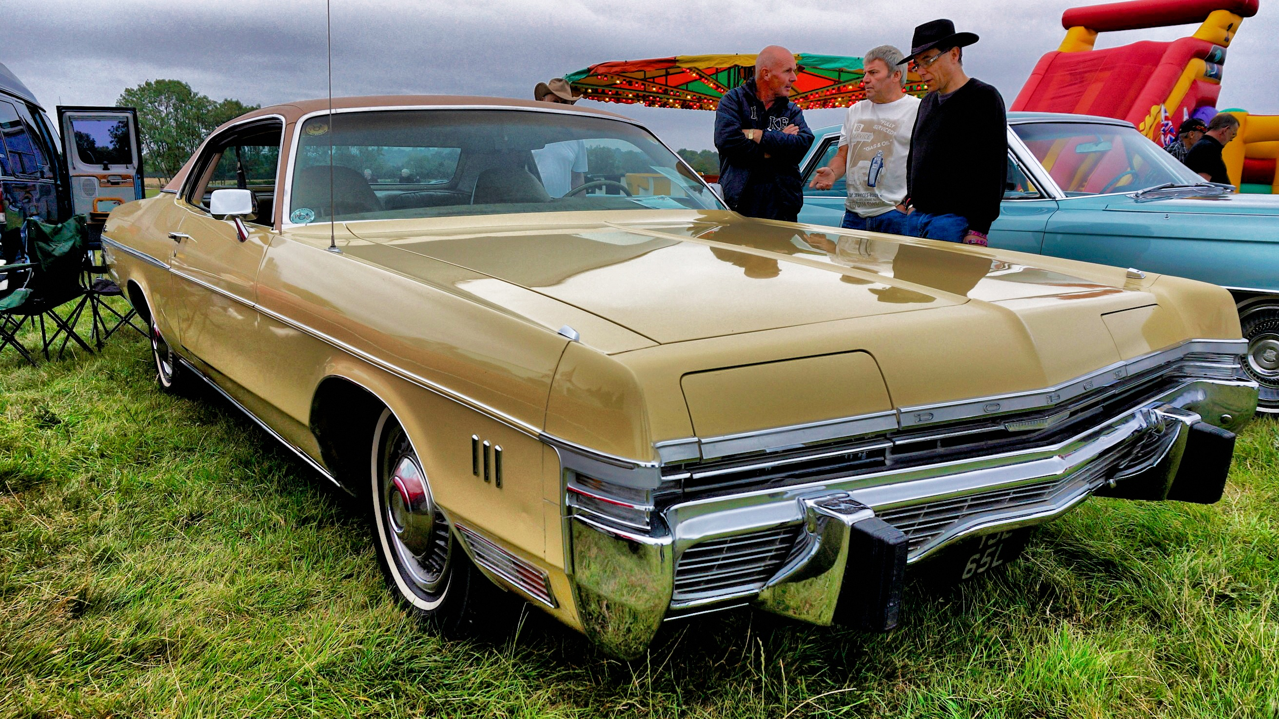 1973 Dodge Monaco 2-door Hardtop. The annual Can-Am Car Club show at Wimborne. A celebration of all things "Automotive and American" plus a few British cars thrown in for good measure.